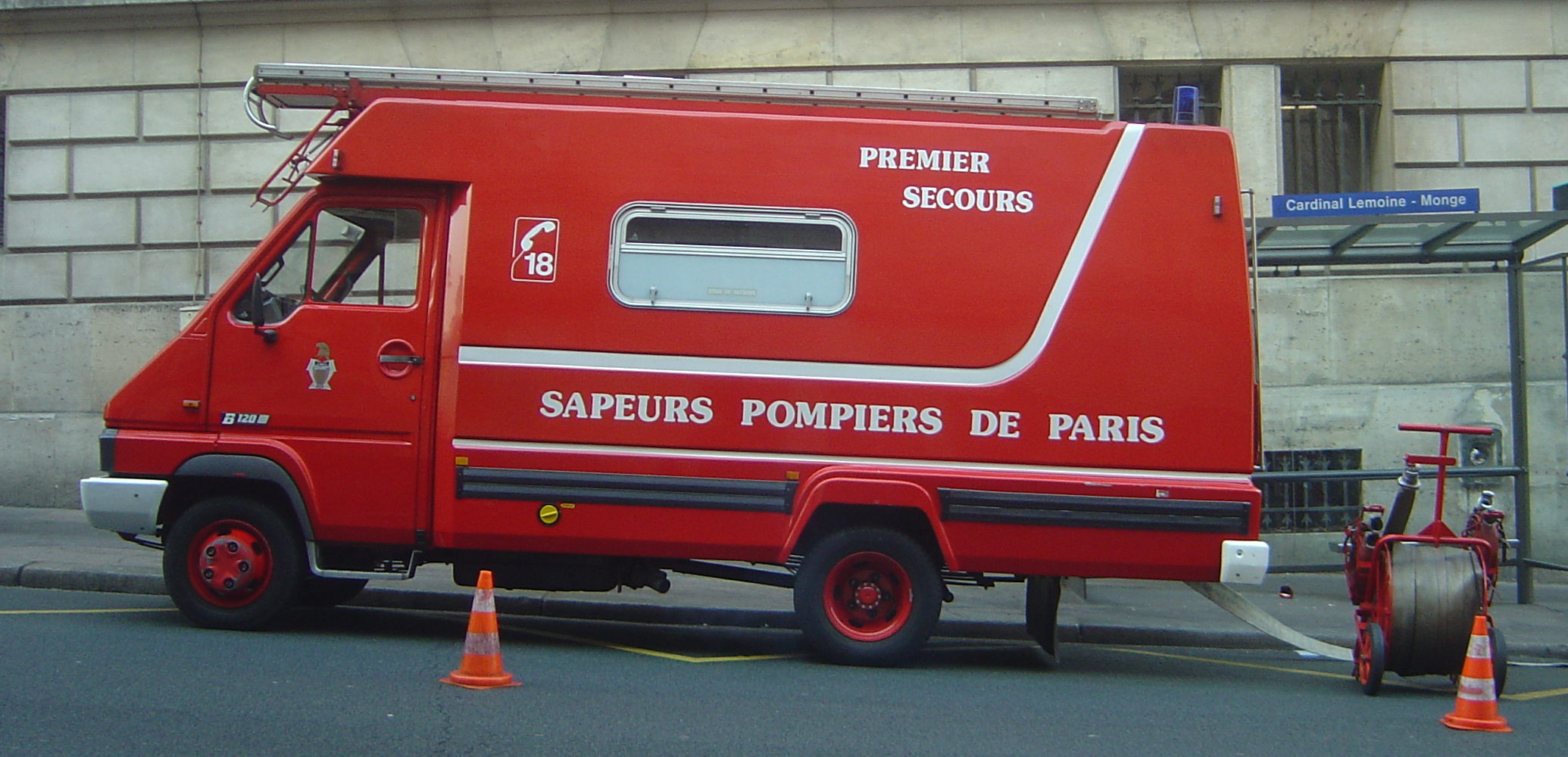 Paris fire brigade, rue du Cardinal Lemoine (training); vehicle used for both medical emergencies (first responders) and fire suppression named "Premiers secours évacuation" (PSR, i.e. "Rescue and casualty evacuation") Renault Master